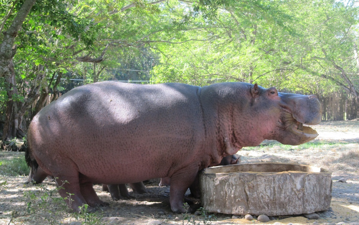 Hippo eating